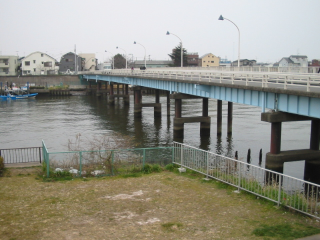 Harue-Bashi, Edogawa-ku, Tokyo, Japan